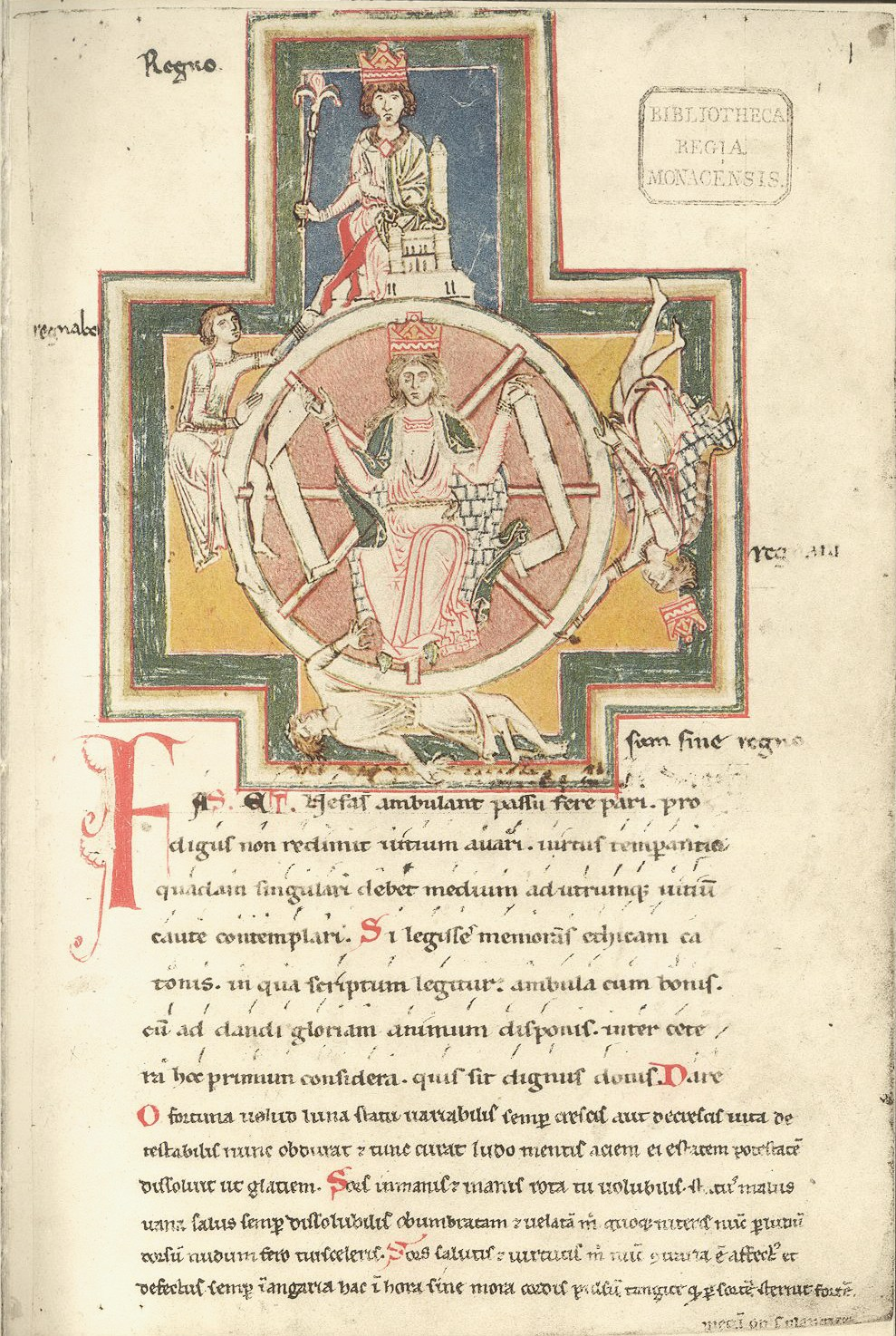 The Wheel of Fortune illustration from the famous Carmina Burana manuscript (Codex Buranus).